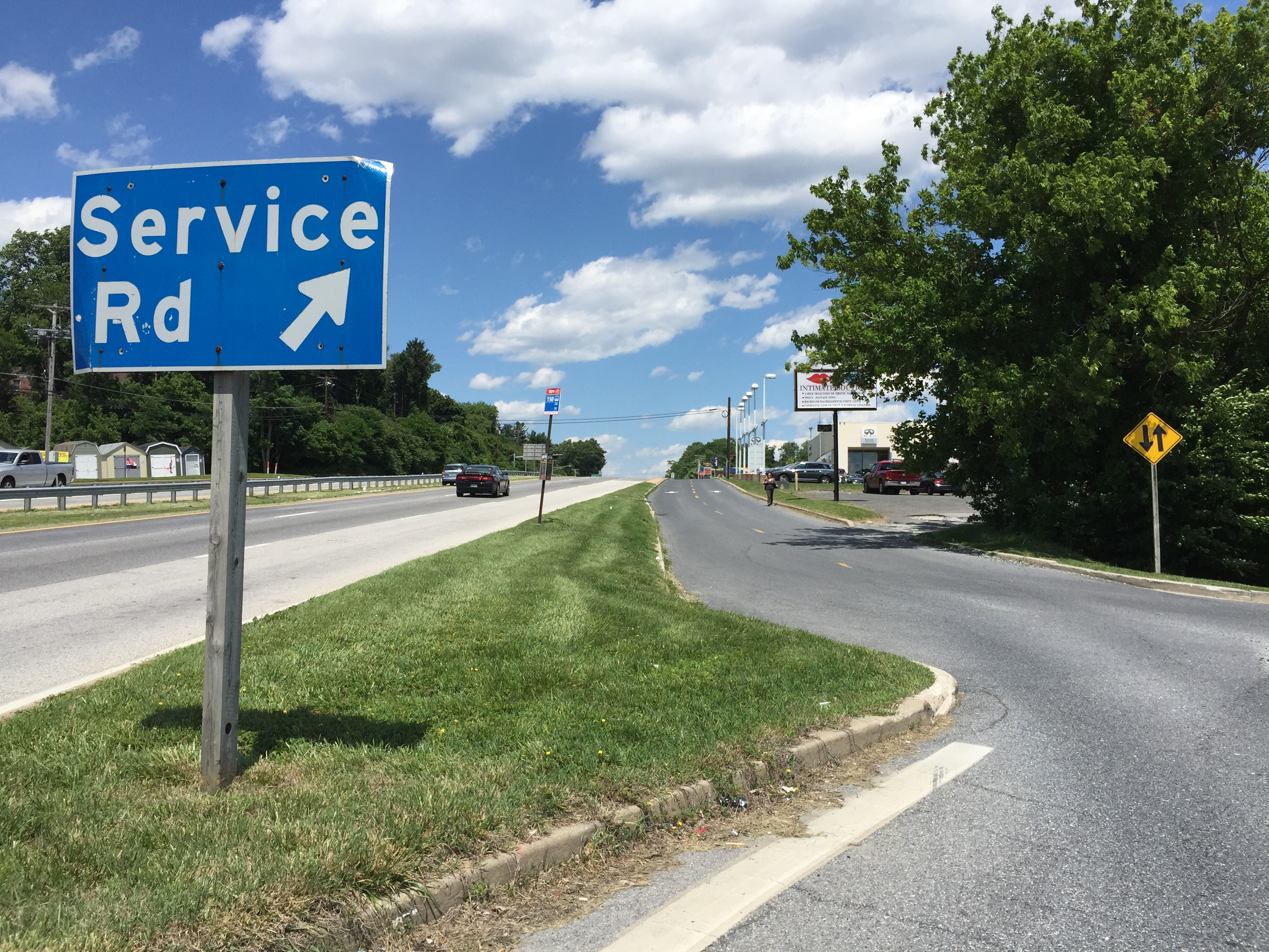 View east at the west end of Maryland State Route 984 (Service Road) at U.S. Route 40 (Baltimore National Pike) in Ellicott City, Howard County, Maryland